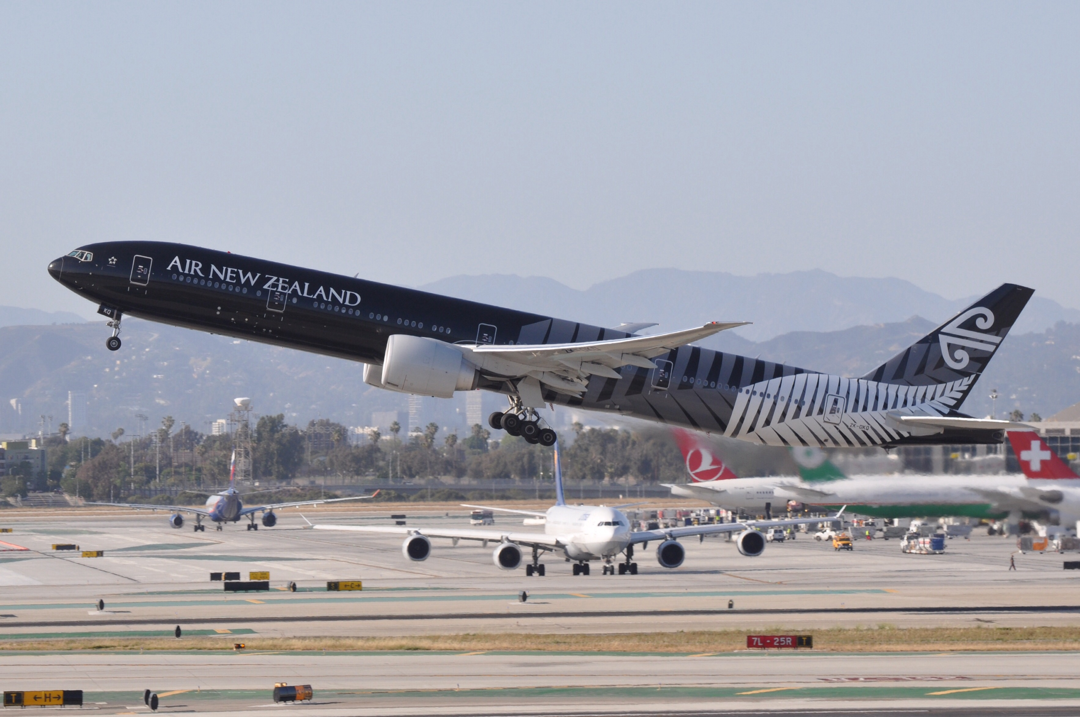 MSN 40689 LN 984 B777-319ER Air New Zealand LAX.